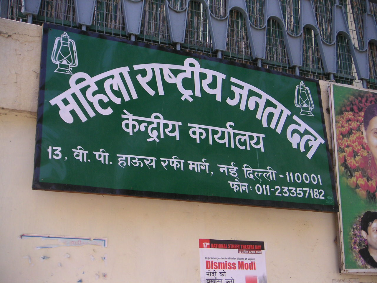 Rashtriya Janata Dal Women's wing. Captioned As { }